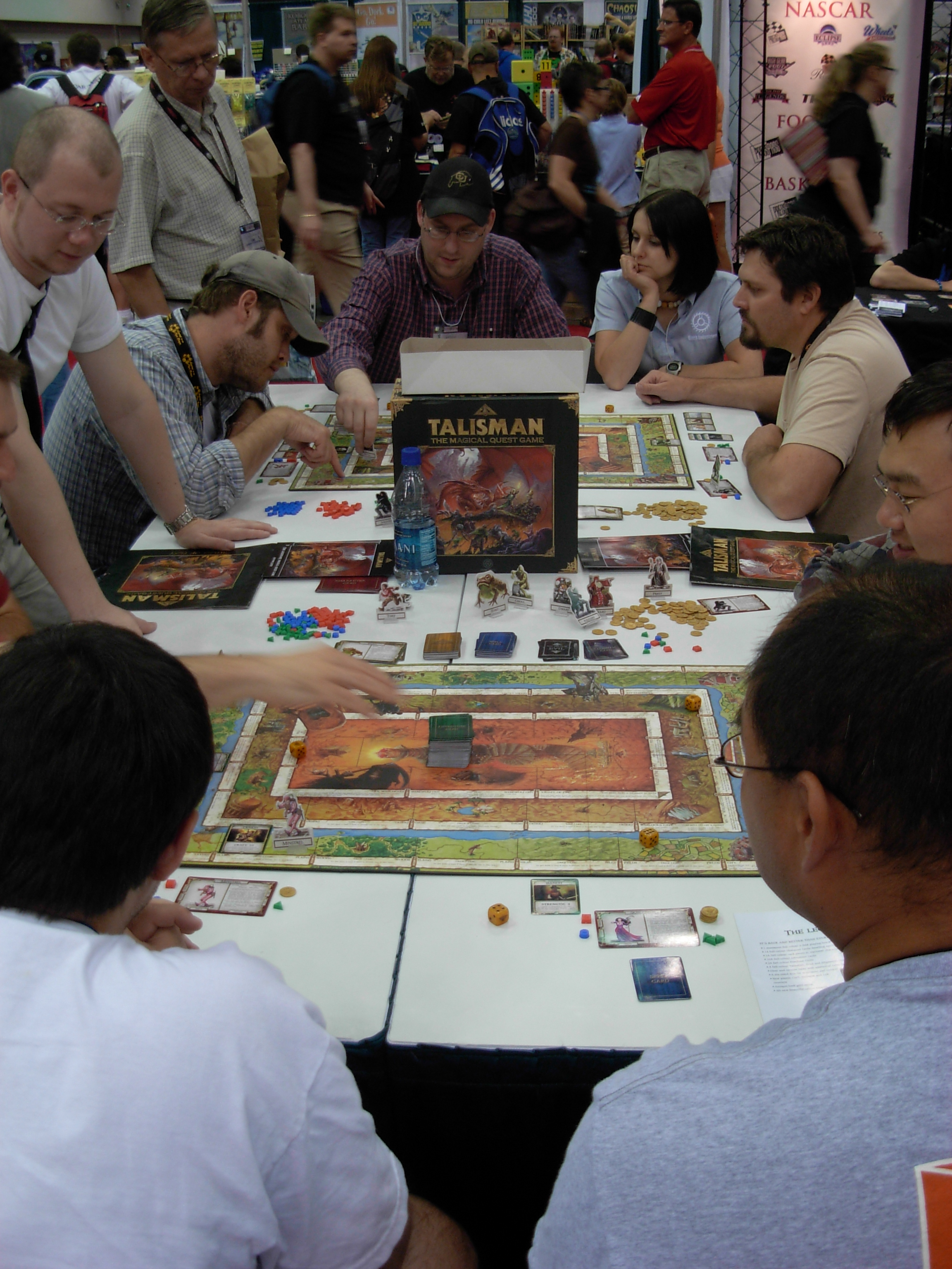 Photos from Gen Con Indy 2007. Demo of Talisman board game.